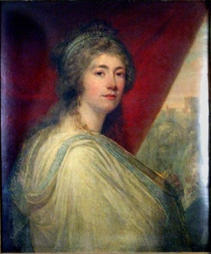 Portrait of The Duchess of Devonshire (1757-1806) in classical dress.